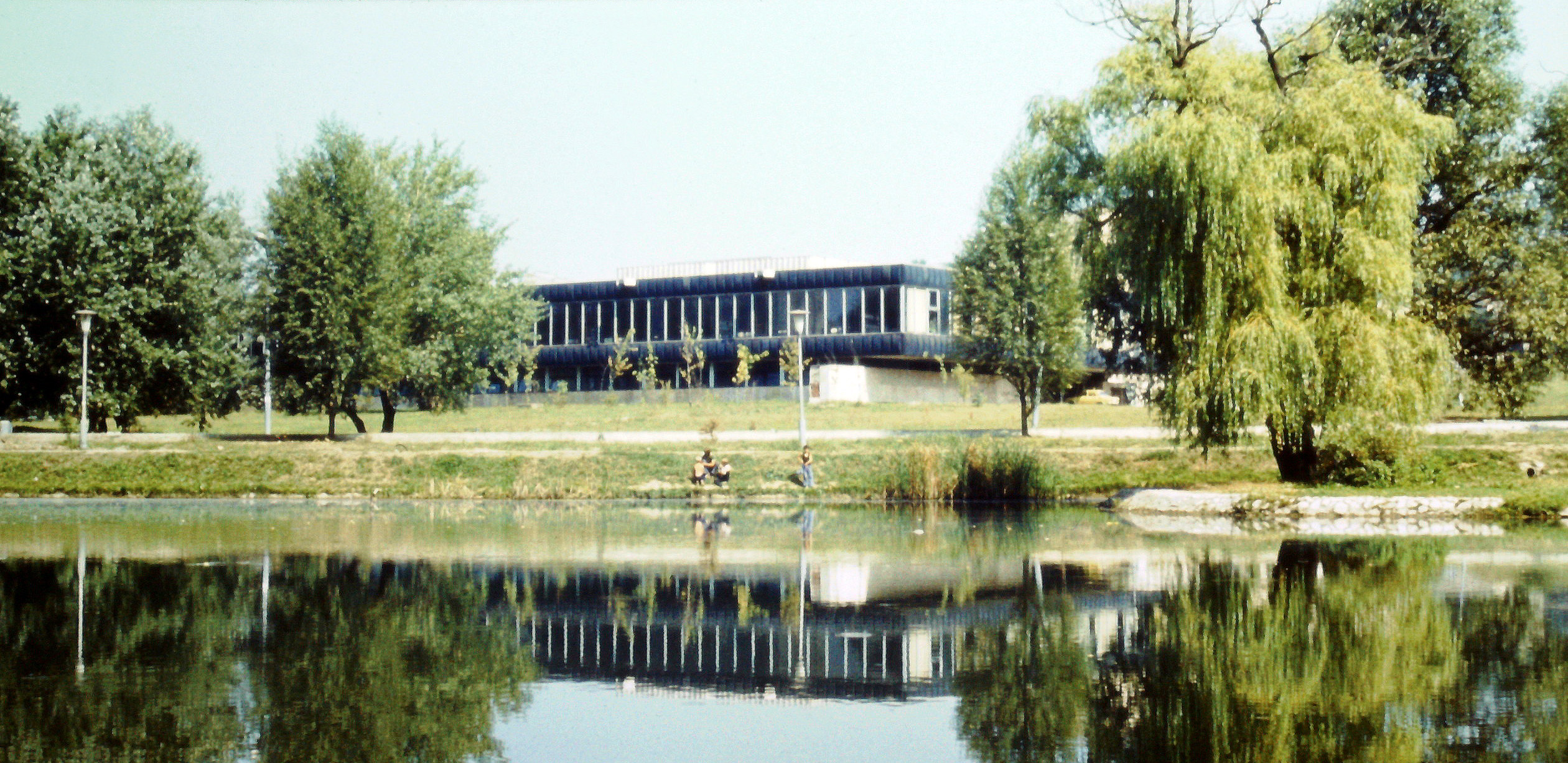 Central Library, University of Miskolc, Hungary (1976)